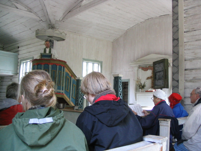 Midsummer service in the wilderness church, Pielpajärvi, Inari, Finland.